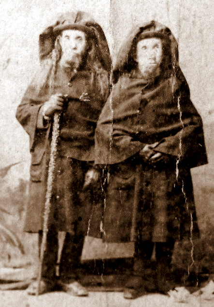 1870's CDV photo of Waino & Plutano, The Wild Men of Borneo.